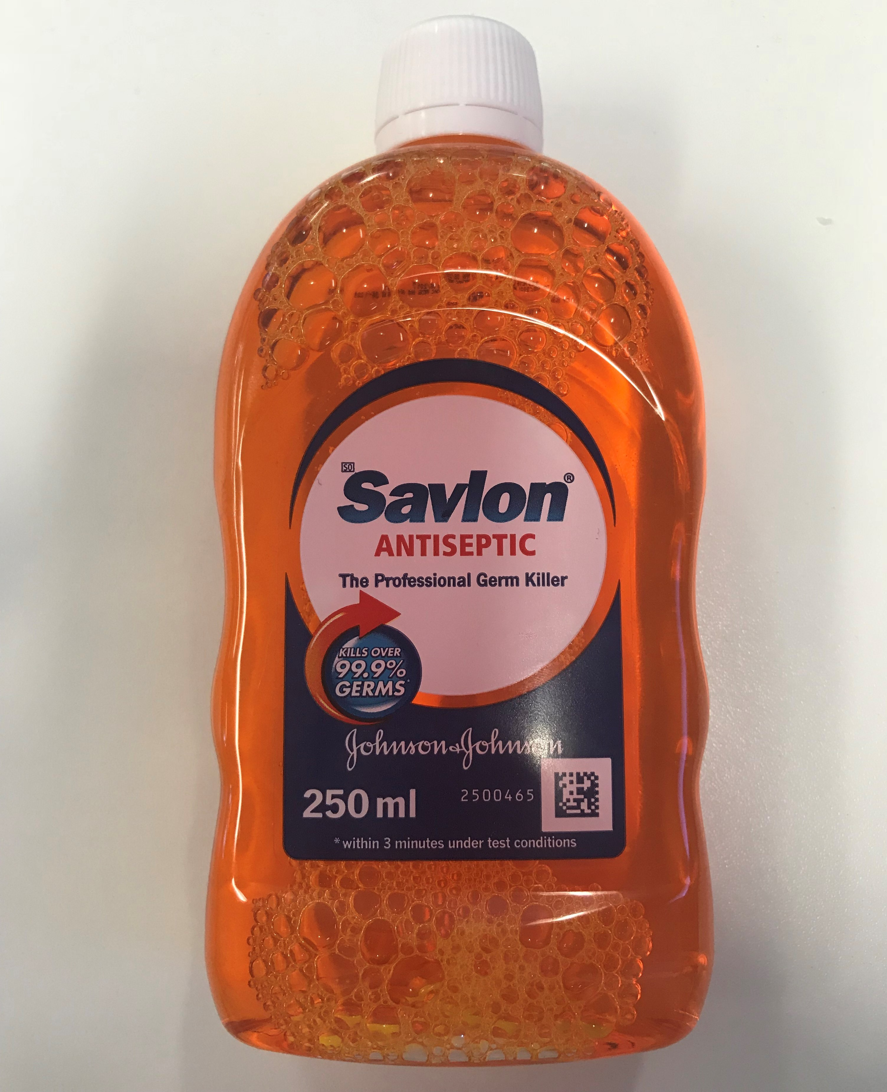 Savlon Antiseptic 250ml